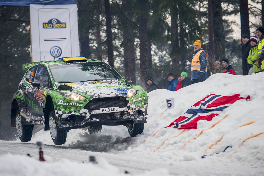 Rally Sweden 2014 Colin's Crest Arena,Ford Fiesta R5,Motorsport,Pavlo Cherepin,Rally,Rally Sweden,Rallye,Rallye Schweden,SS19,Vargäsen 1,WP19,Yurii Protasov,Yuriy Protasov